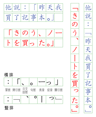 Horizontal and vertical writing in Chinese and Japanese 中文和日文的橫排與豎排 中国語と日本語の縦書きと横書き